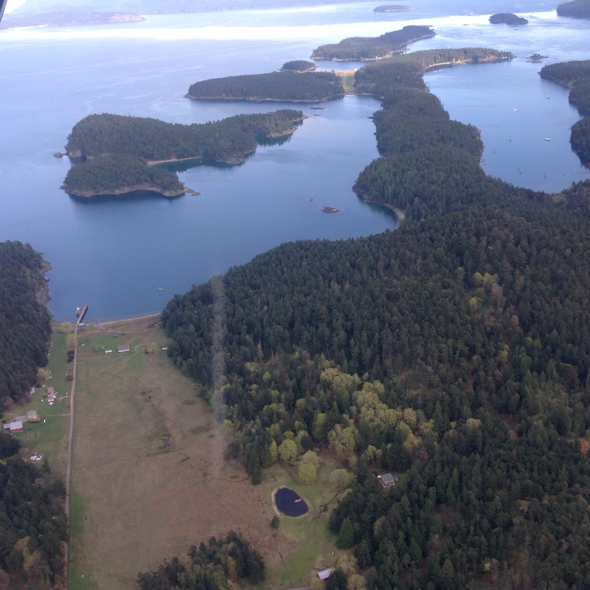 Stuart Island Airpark (background) lies on the eastern shore of Prevost Harbour across from Satellite Island (United States). The county dock can be seen in for foreground, at the west end of Prevost Harbour (Photo taken from the west end of the island, looking east)